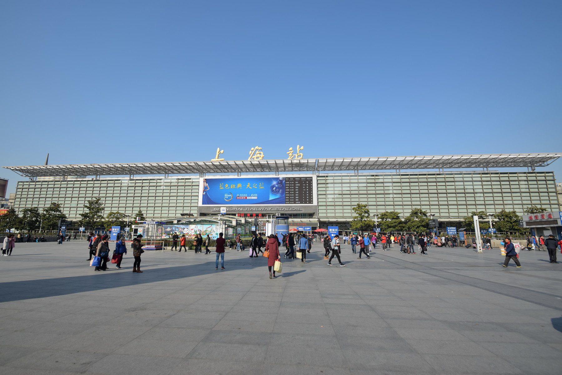 South Square of Shanghai Railway Station